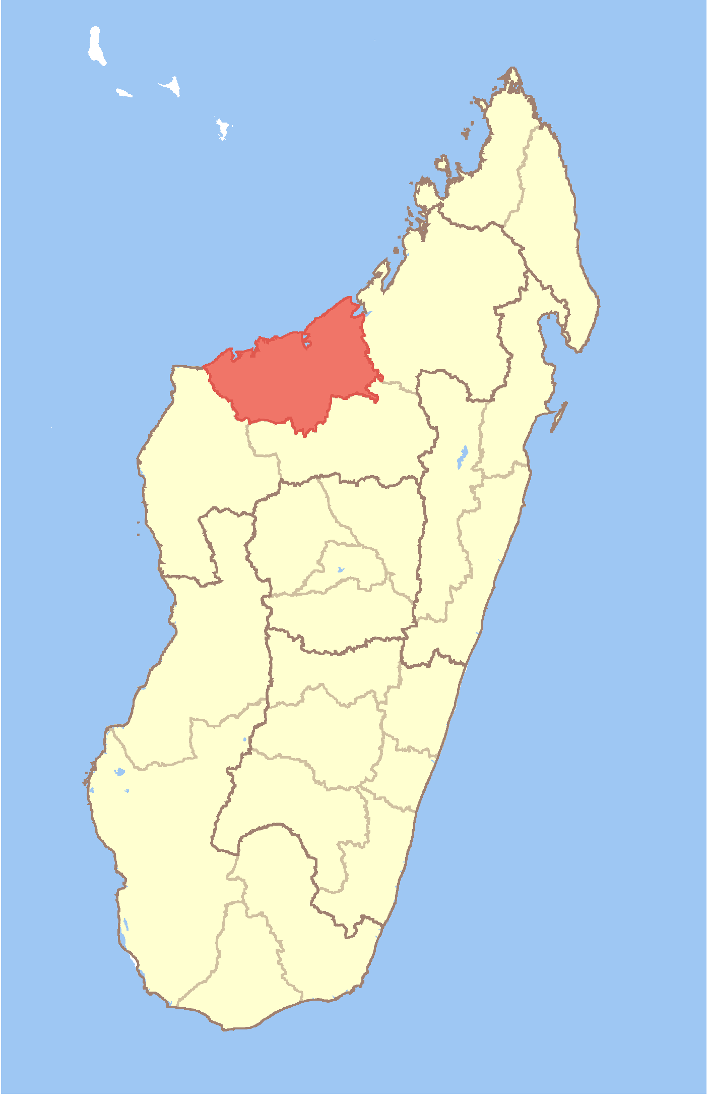 Map of Madagascar with Boeny Region highlighted